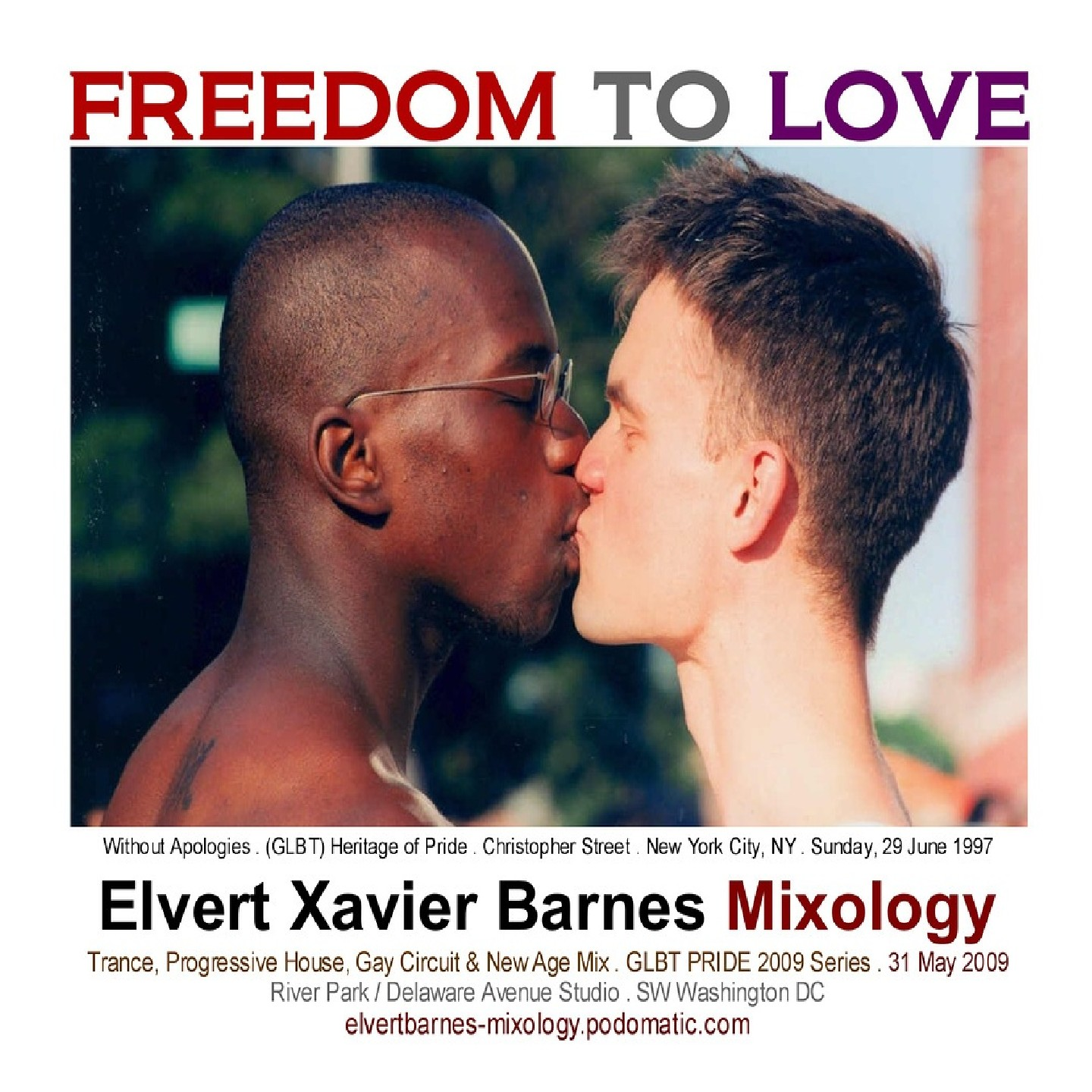 Featuring an image shot by Elvert Barnes on 29 June 1997 during the Heritage of Pride Parade/March in New York City this art work represents the cd cover for the FREEDOM TO LOVE (GLBT Pride Series) dance music compilation by Elvert Xavier Barnes Mixology. Released in Washington DC on 31 May 2009 as the first GLBTP Pride 2009 mixes in an installment of 5ive, FREEDOM TO LOVE features Trance, Progressive House, Gay Circuit & New Age tracks. To listen to and/or download the FREEDOM TO LOVE podcast visit Elvert Barnes' podcast at To learn more about the FREEDOM TO LOVE (GLBT Pride 2009 Series) dance mix read Elvert Barnes' FREEDOMN blog posting at